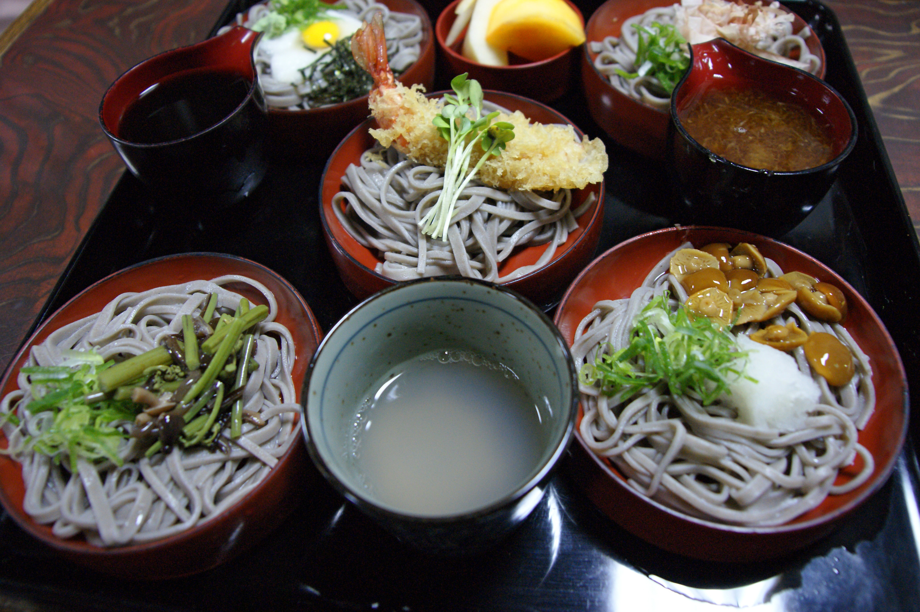 Echizen soba at Fukui, Fukui prefecture, Japan